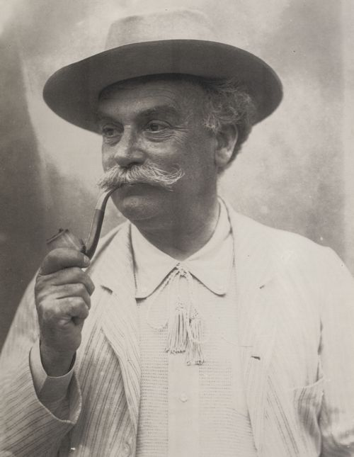 Georges Charpentier, french puplisher